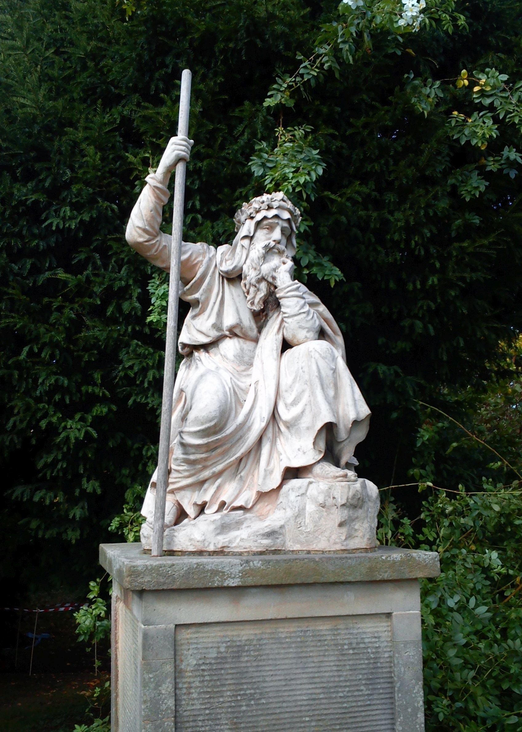 Croome Park, Worcs: Druid statue in the park